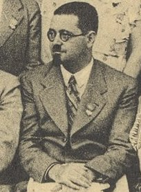 F. S. Bodenheimer and Mrs. Bodenheimer at the 6th International Congress of Entomology held at Madrid in 1935